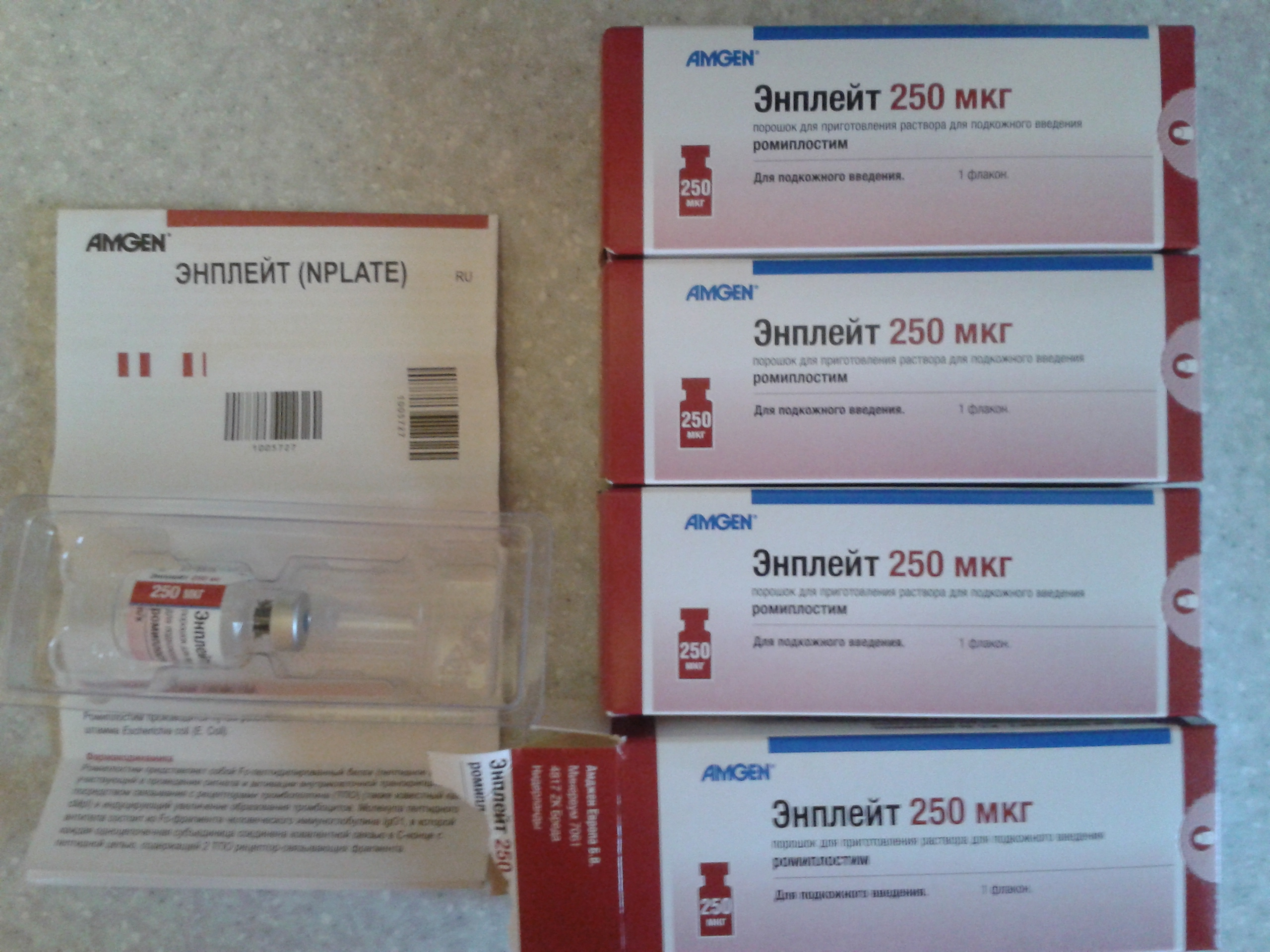 Nplate packing with russian label